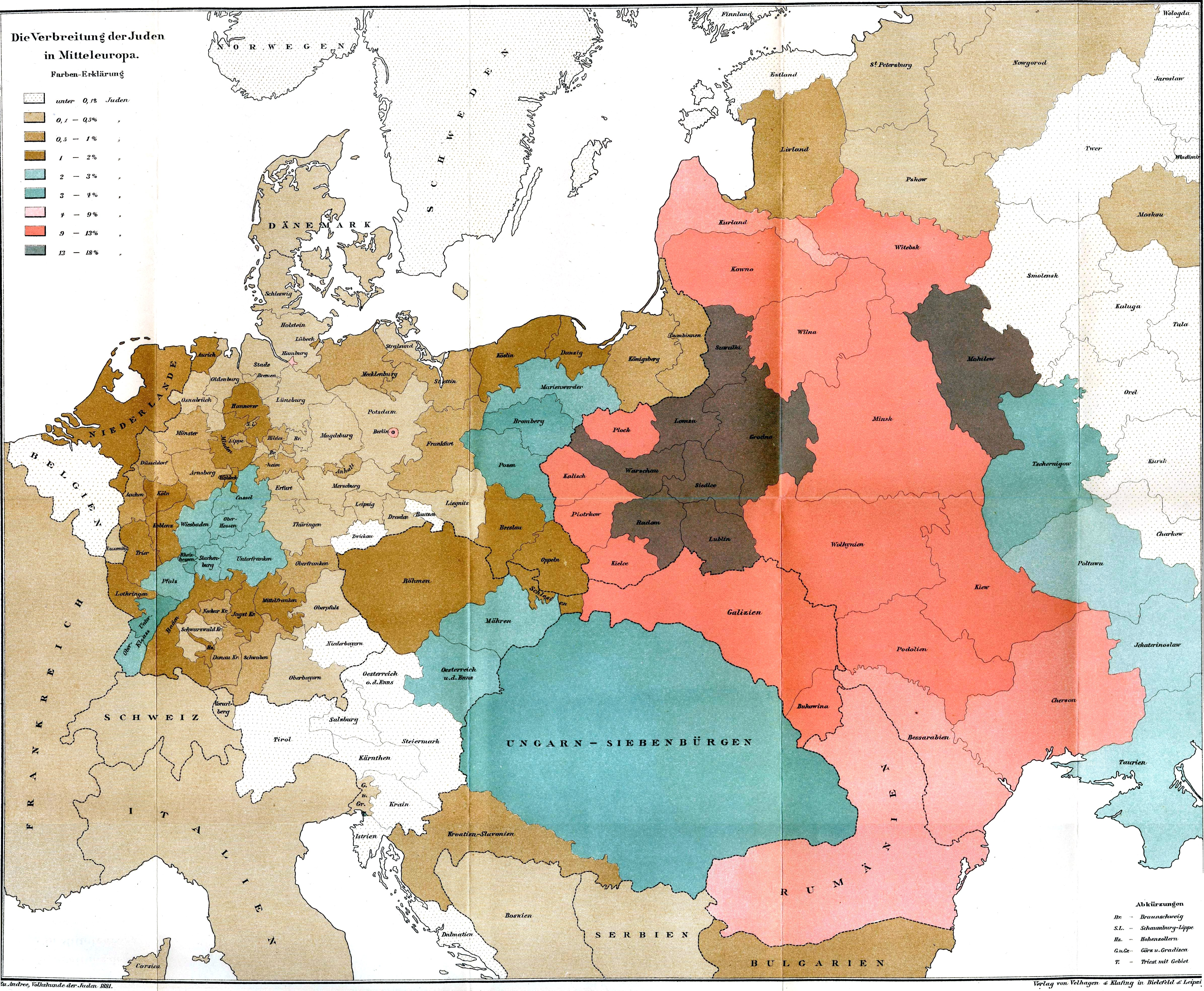 The distribution of the Jews in Central Europe (from Richard Andree, Ethnography of the Jews, 1881). Legend: (speckled white): Population under 0.1% Jewish (striped brown): 0.1–0.5% Jewish (checked brown): 0.5–1% Jewish (brown): 1-2% Jewish (checked blue): 2–3% Jewish (blue): 3–4% Jewish (pink or checked red): 4–9% Jewish (red): 9–13% Jewish (grey): 13–18% Jewish Abbreviations: Br. — Braunschweig (traditionally Brunswick in English) S.L — Schaumburg–Lippe Hz. — Hohenzollern . — Görz and Gradisca T. — Trieste and surrounding area